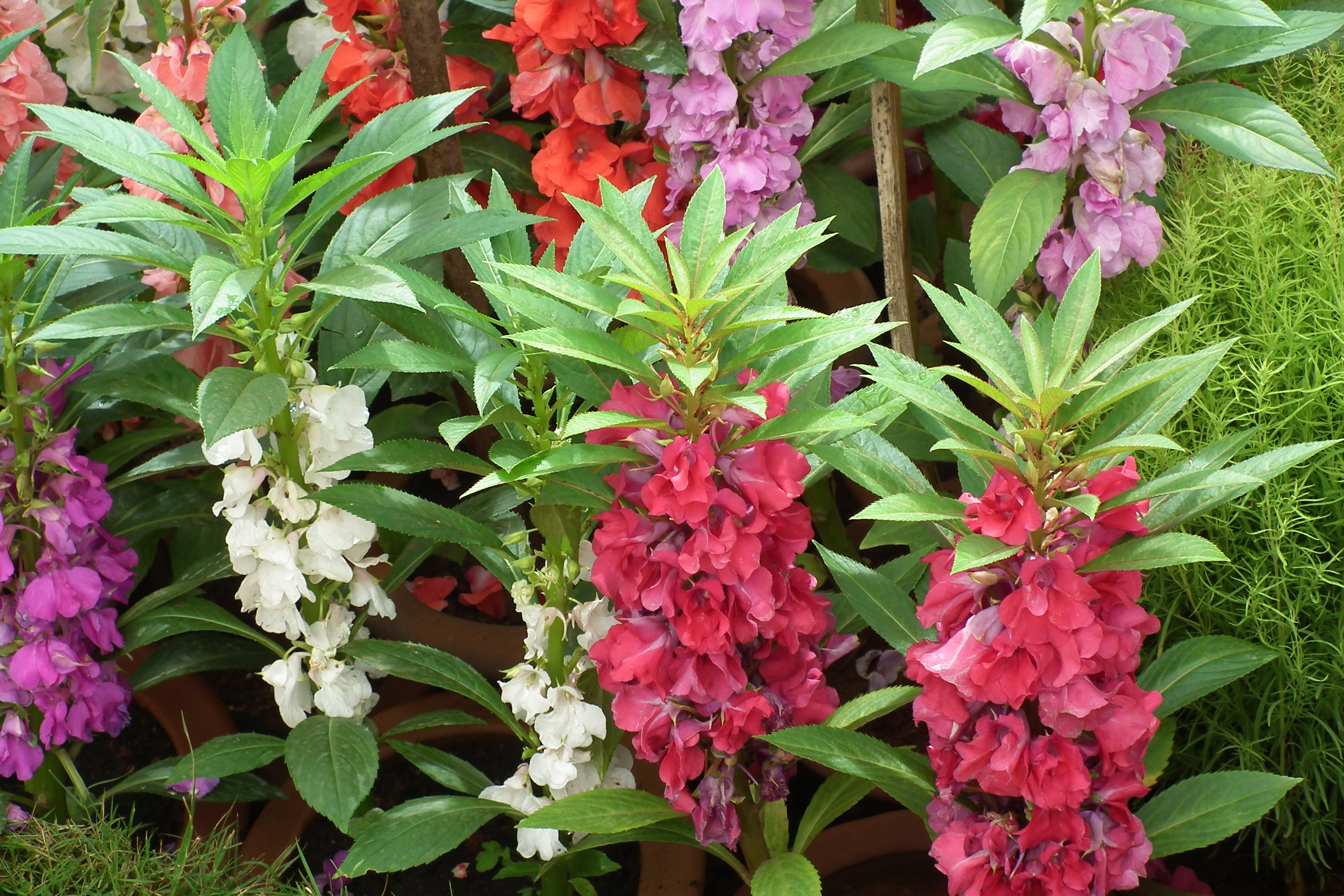 Impatiens balsamina (Garden Balsam or Rose Balsam) is a species of Impatiens native to southern Asia in India and Myanmar Impatiens balsamina from Lalbagh Garden, Bangalore, INDIA during the Annual flower show in August 2011.